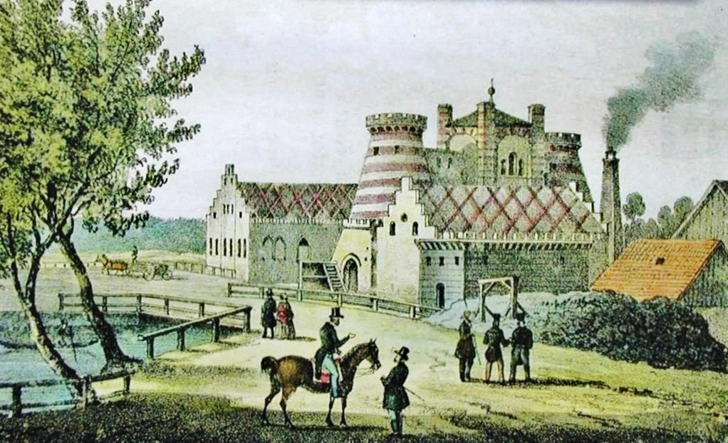 Iron works at Keula near Muskau (Germany), around 1857